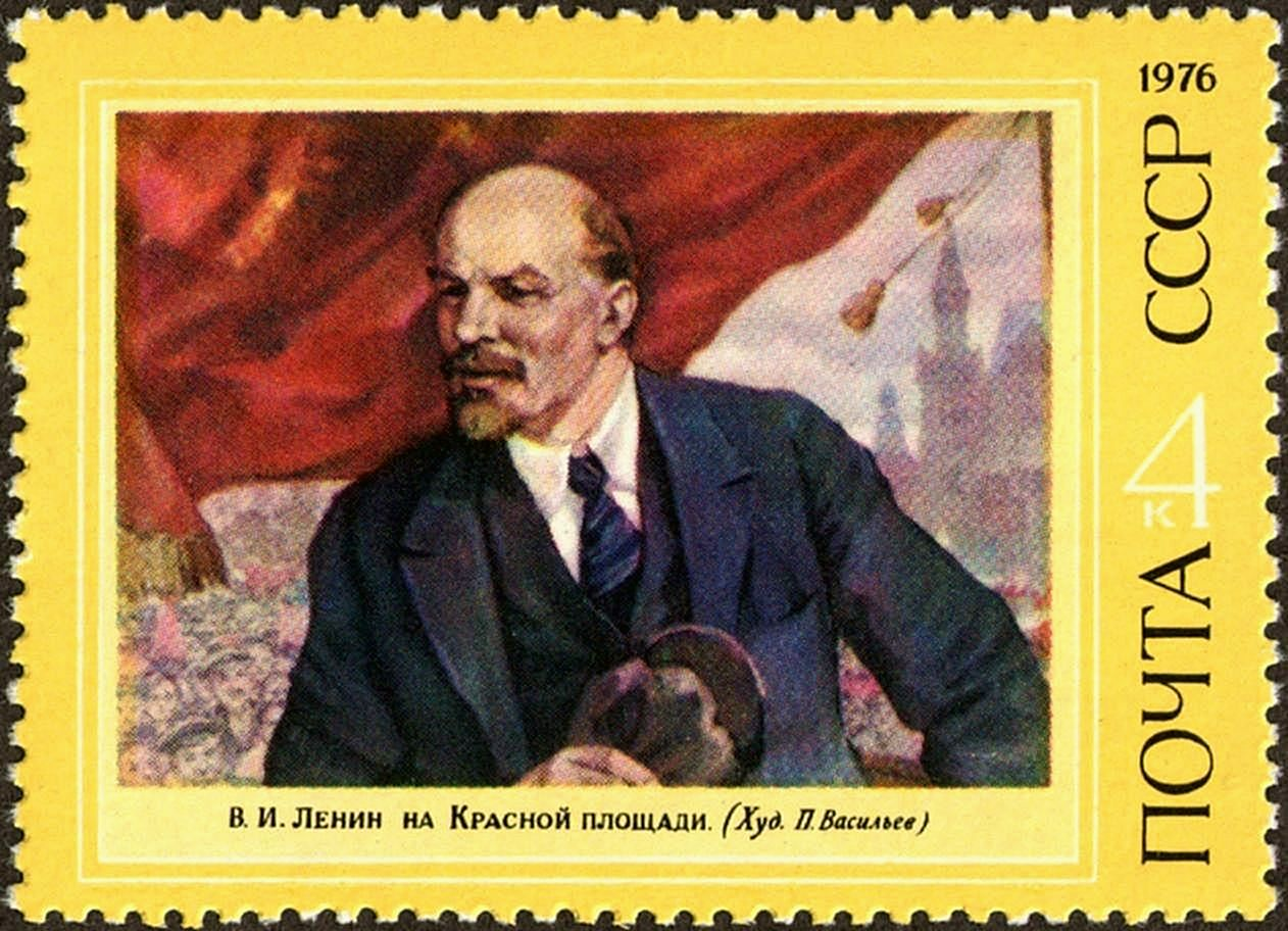 106th birth anniversary of the founder of the Communist party and the Soviet state Vladimir Lenin.Vladimir Lenin in the Red Square by Pyotr Vasilev[1]. Oil on canvas. 1972. State Historical Museum, the branch Museum of Vladimir Lenin.The stamp of Soviet Union, 4 kopecks, 10 March 1976, CPA Catalogue No 4556, Michel No 4452, Scott No 4419. Coated paper. Offset printing, varnish coating. Perforation: comb 12½×12. Size of the stamp: 52×37 mm. Print run: 7,000,000.